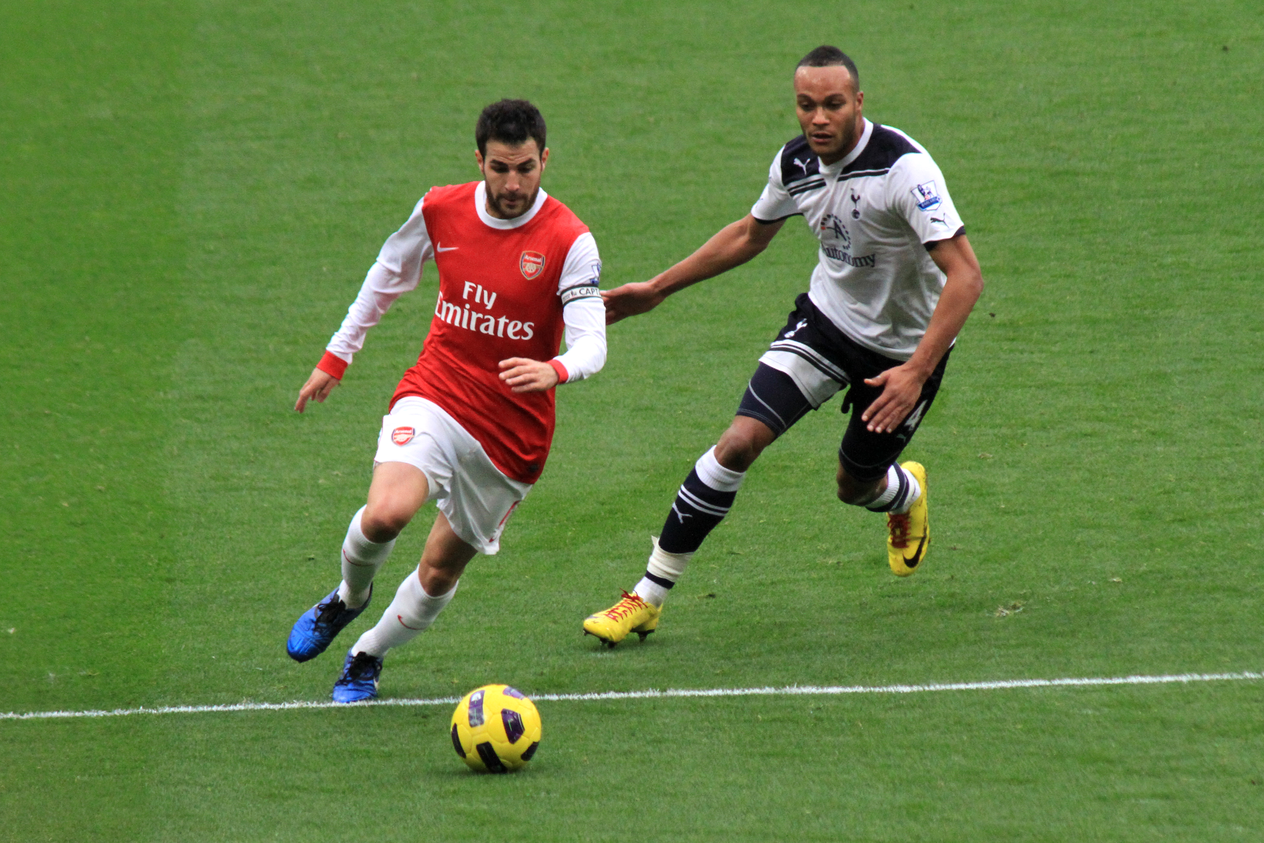 Cesc Fàbregas & Younes Kaboul